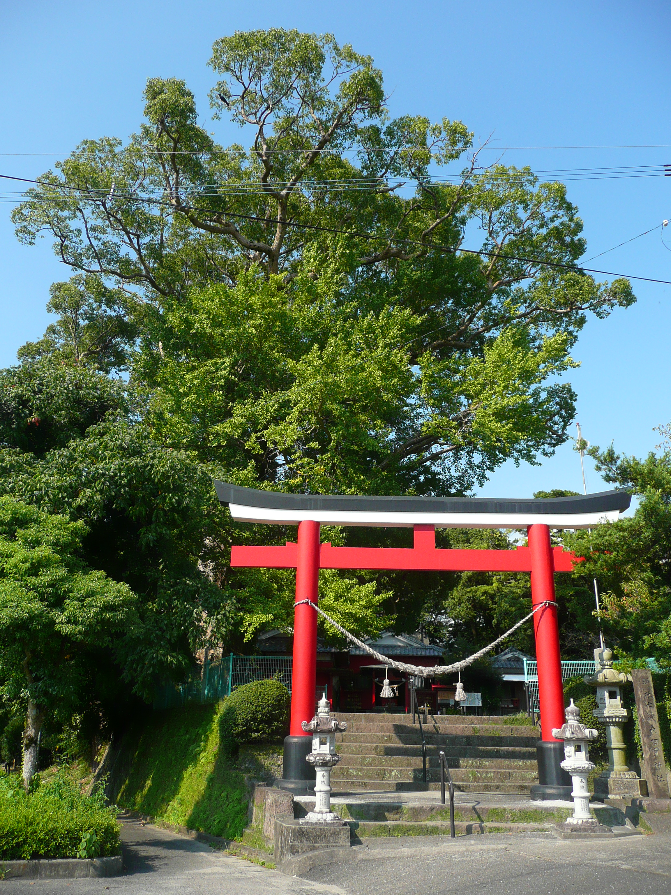 Nanakariosa Tanuki Shrine (Also known "Tasaki Shrine" - Tasaki-cho, Kanoya City, Kagoshima, Japan)